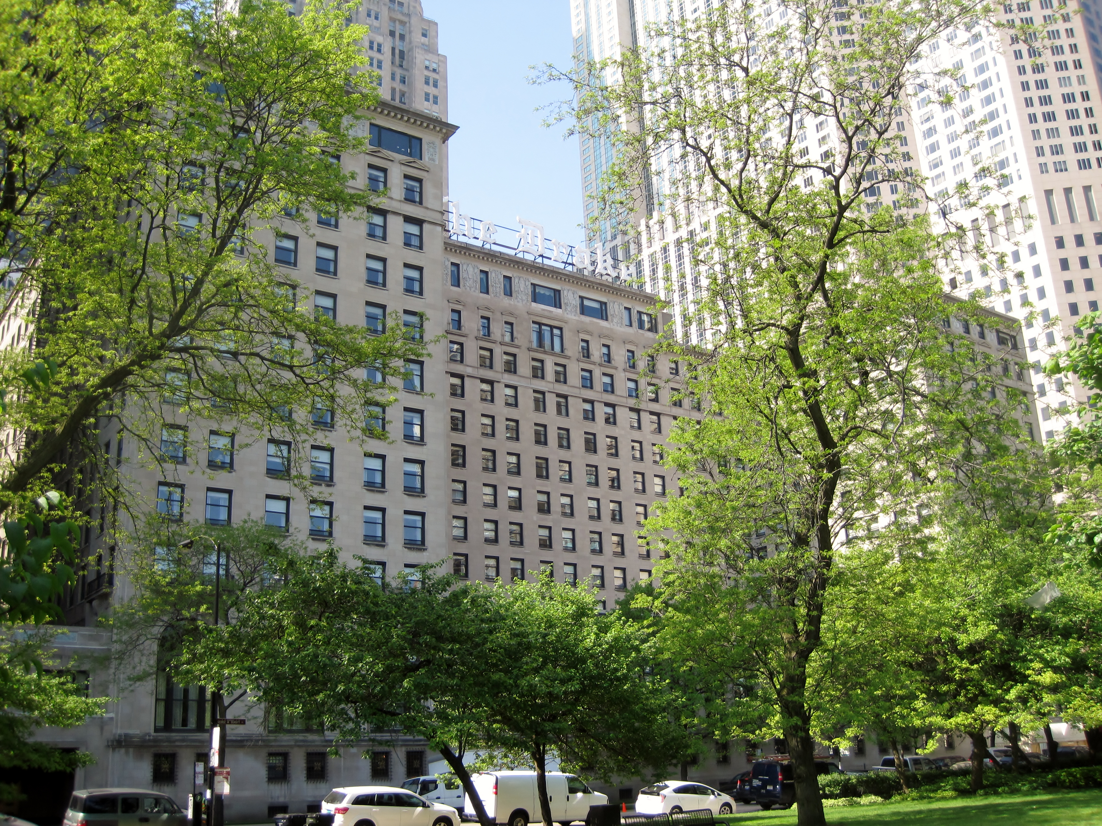 The Drake Hotel in Chicago (1920). It was designed by Marshall & Fox for the Drake brothers, who also owned the Blackstone Hotel. The building was an early home for WGN radio. Frank "The Enforcer" Nitti, the head of the Chicago Outfit after Al Capone, operated out of a suite of rooms. As one of the finest hotels in Chicago, it hosted many famous guests, including Princess Diana, Winston Churchill, and Frank Sinatra. Joe DiMaggio and Marilyn Monroe carved their initials into one of the rooms.